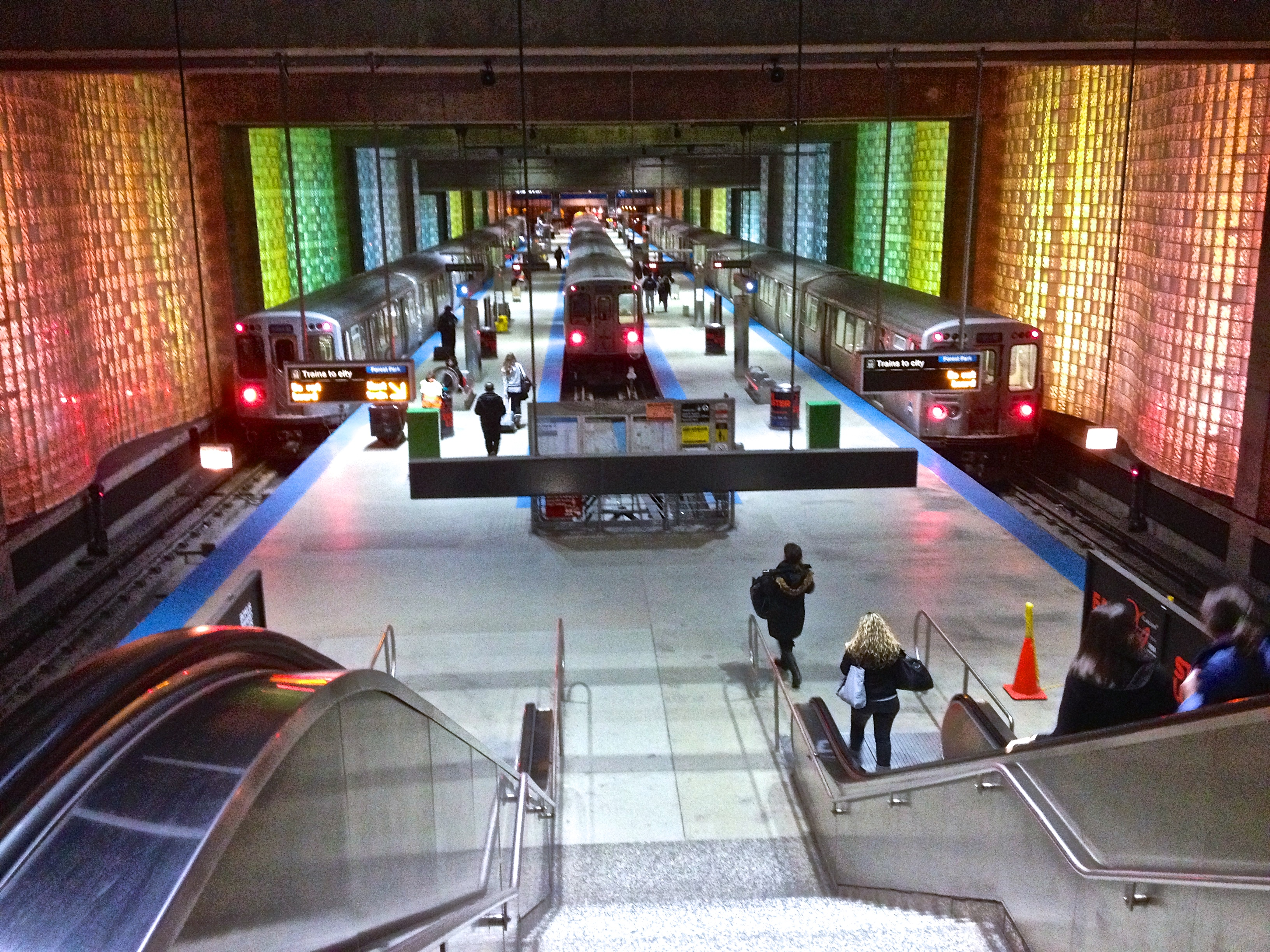 CTA O'Hare Blue Line Station